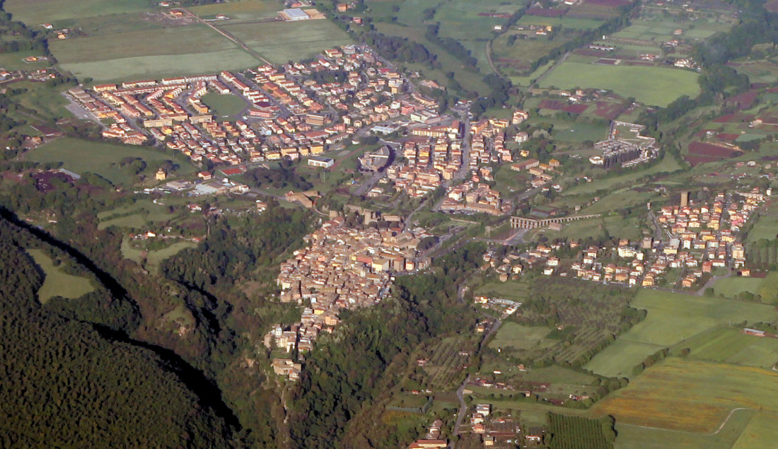 Nepi, Lazio, Italy.